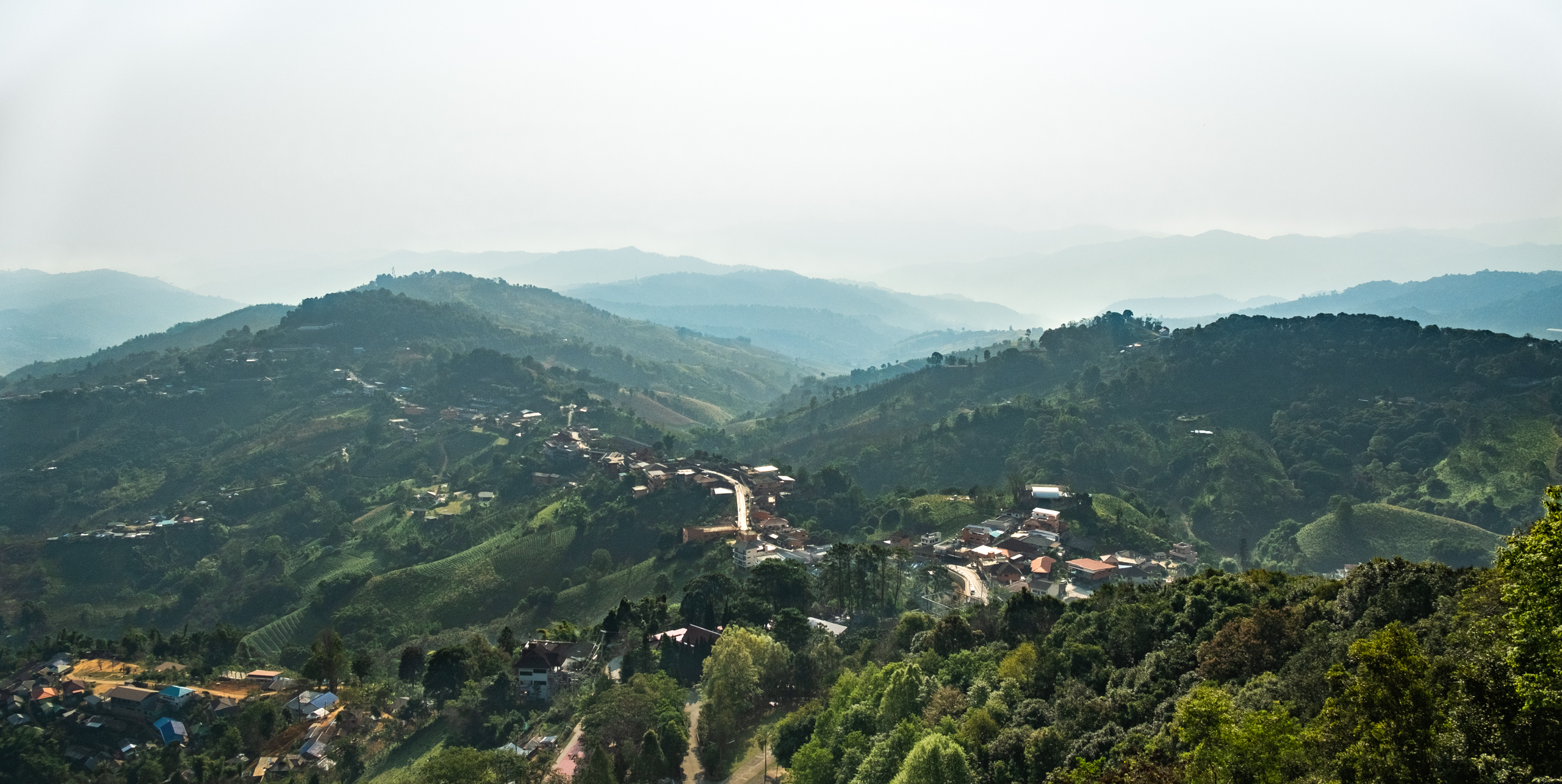 View over the eastern end of Mae Salong/Santikiri as seen from the terrace of Phra Boromathat Chedi.